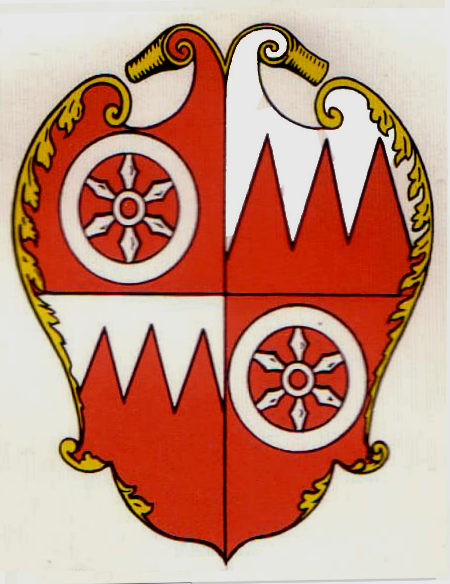 Sebastian of Heusenstamm